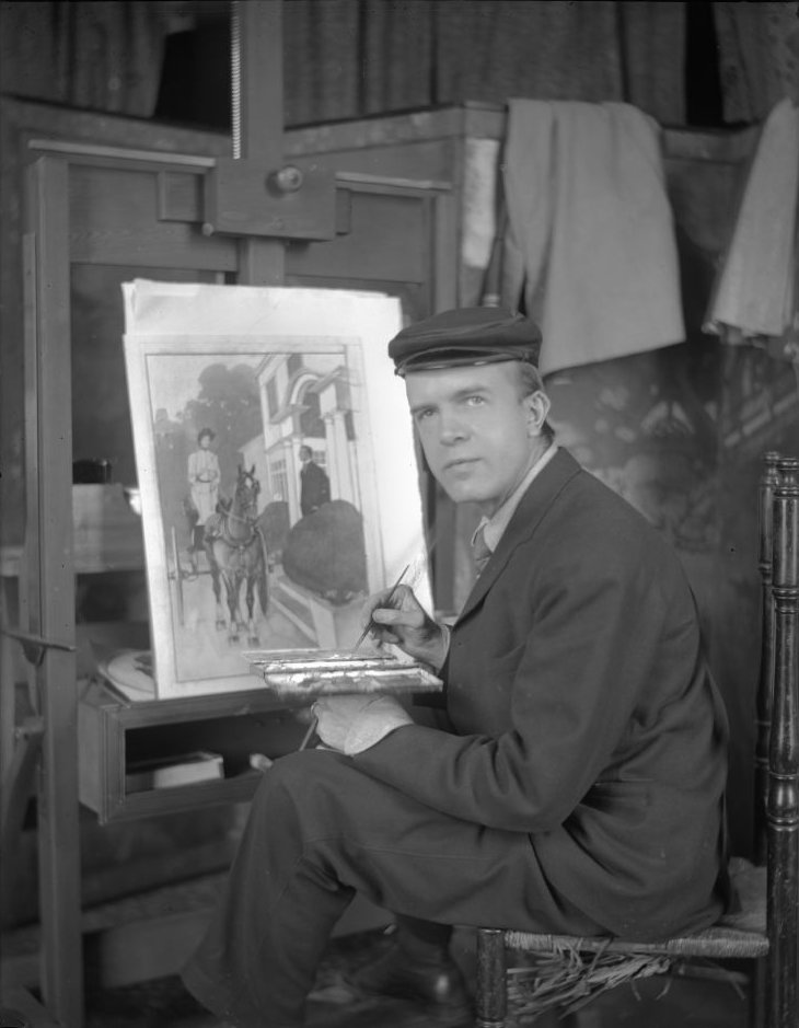 Accession Number: 1974:0056:0076 Maker: William M. Vander Weyde (American 1871–1929) Title: Edward Penfield, Artist Date: ca. 1900 Medium: negative, gelatin on glass Dimensions: 8.5x6.5 in. George Eastman House Collection